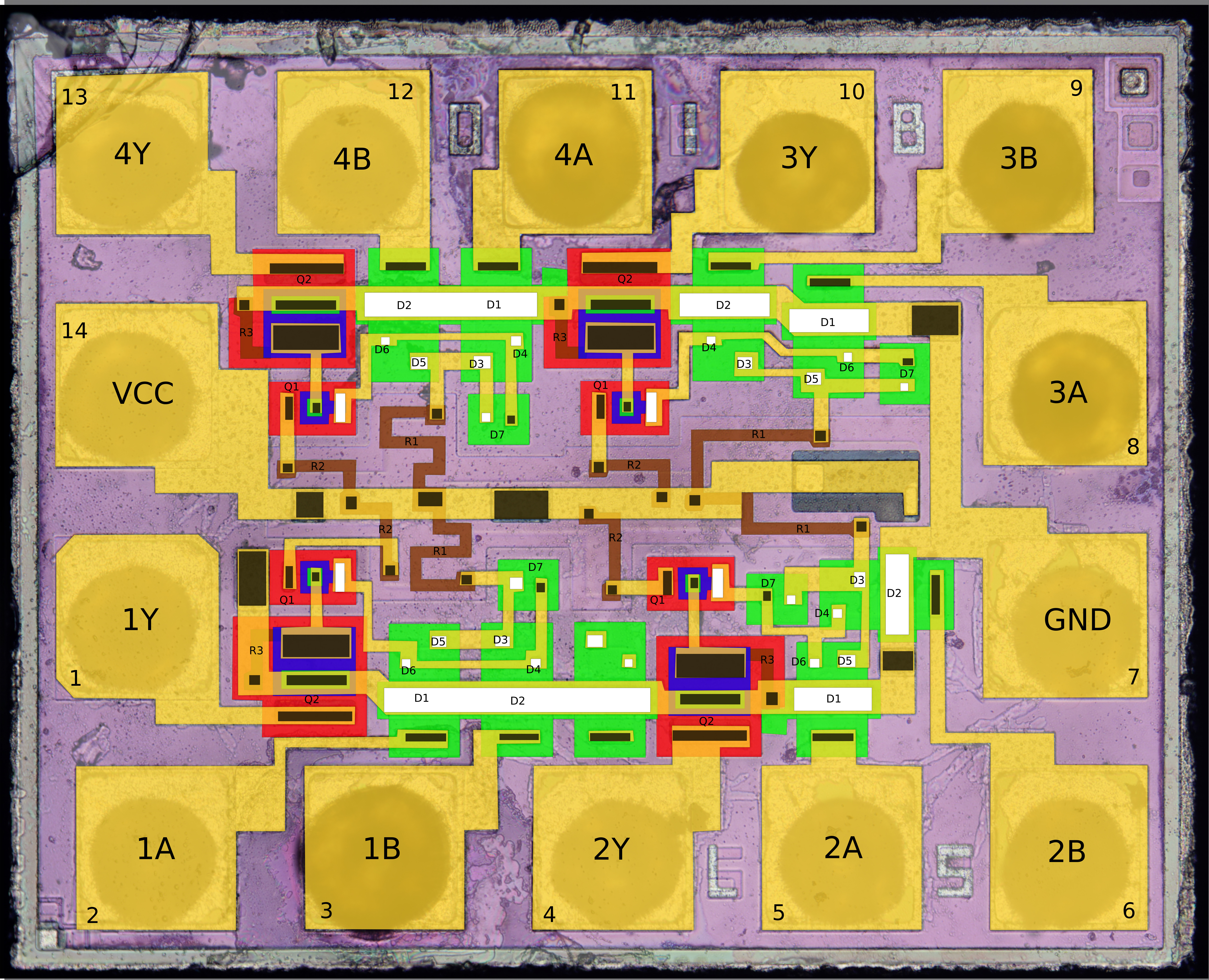 Annotated die photo of a Texas Instruments 74LS01 chip, datecode 8610